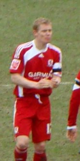 06/03/10 Cardiff V Middlesbrough, Championship, Cardiff City Stadium, Cardiff, Wales